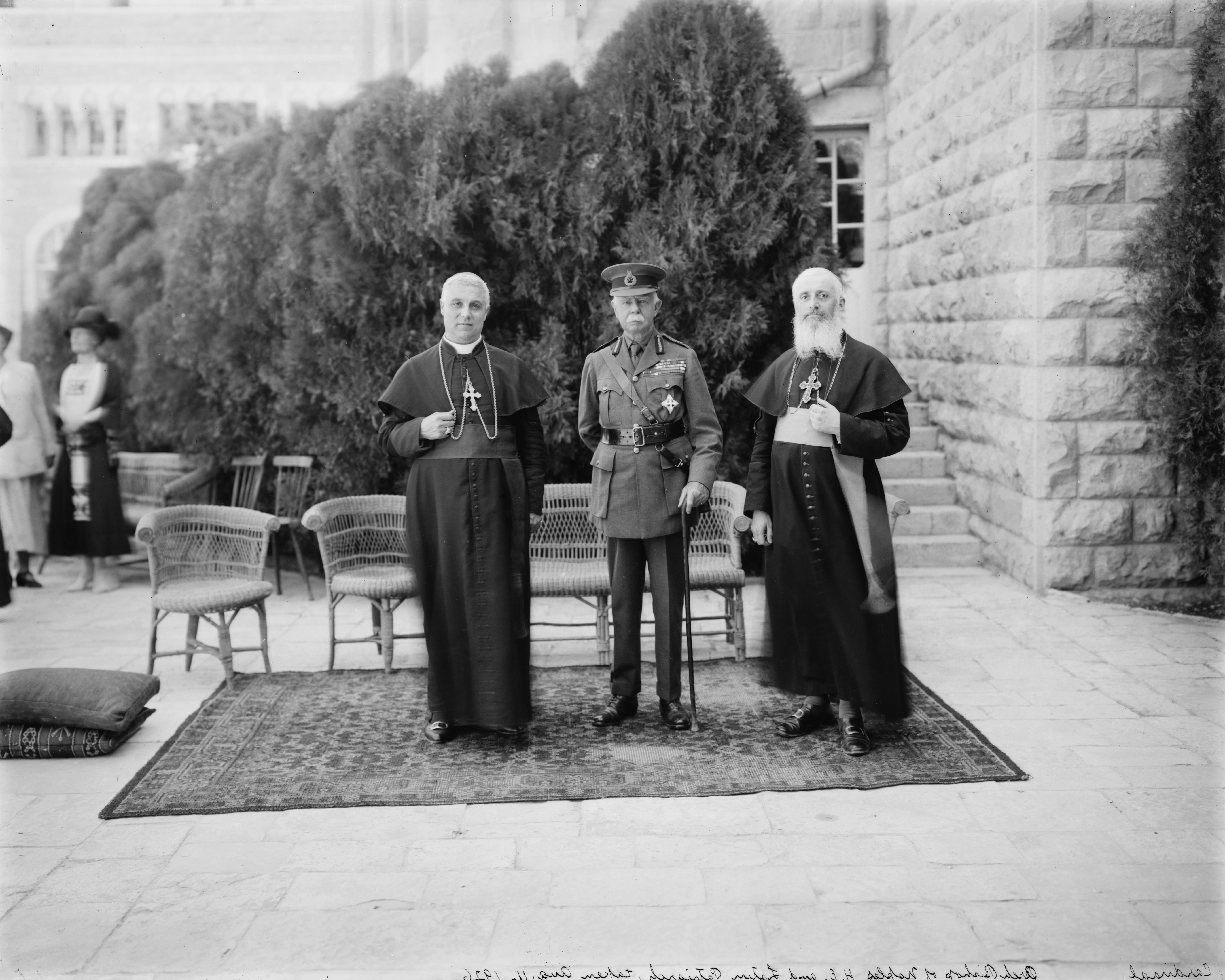 Left to right: Abp. [i.e., archbishop] Lessio Ascalesi of Naples, Lord Plumer, Latin Patriarch Luigi Barlassina. See also File:Lord Plumer with archbishop of Naples & Latin Patriarch.jpg